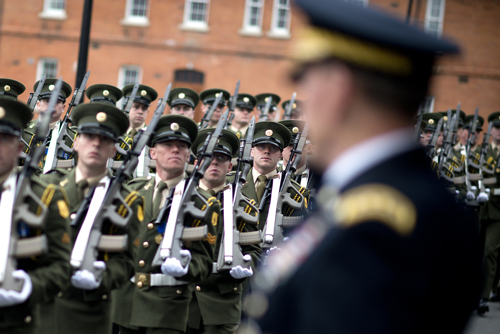 U.S. Army Gen. Martin E. Dempsey, chairman of the Joint Chiefs of Staff, reviews the Irish Honor Guard at Brugha Barracks in Dublin, Aug. 31, 2012.